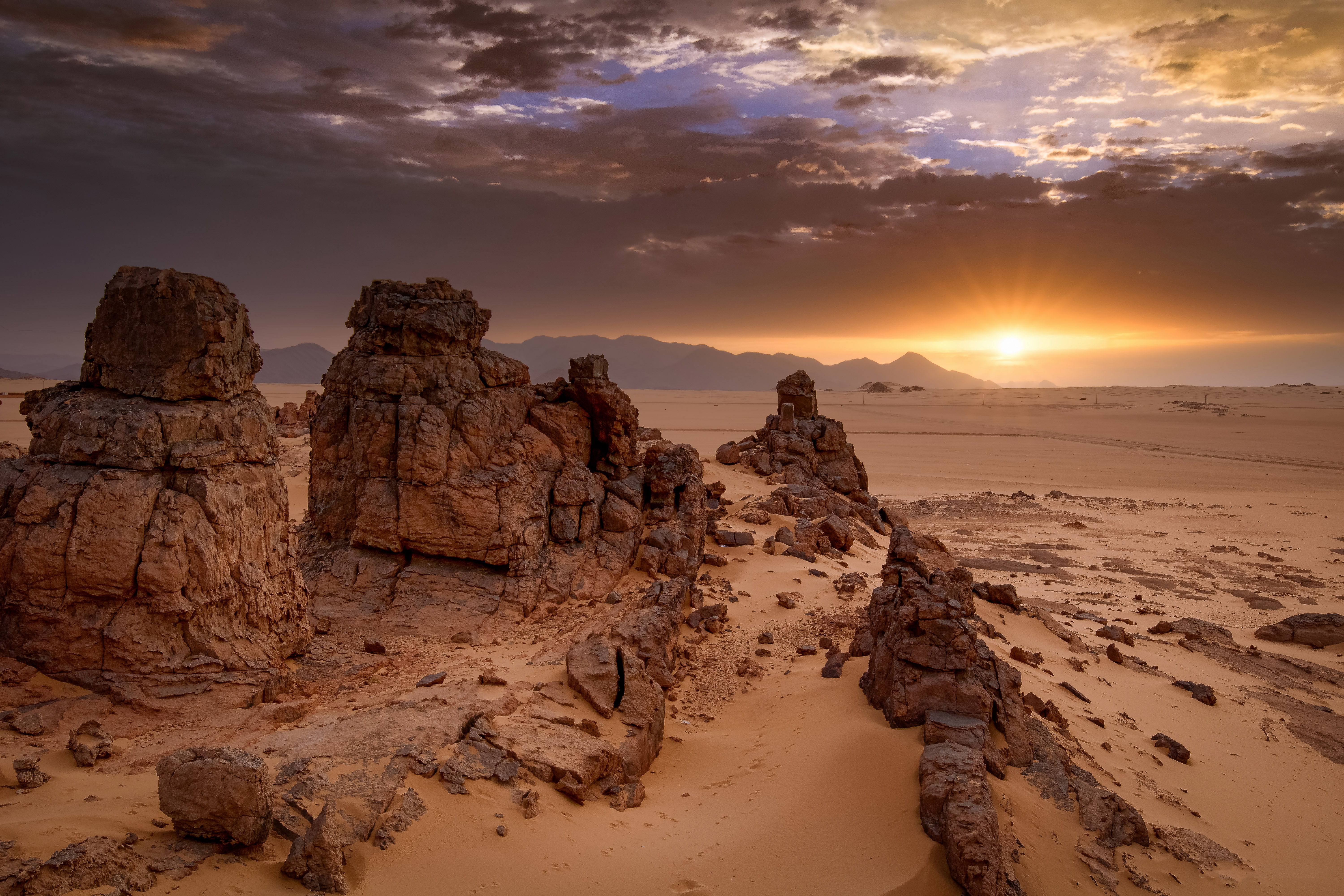 Tassili n'Ajjer National Park, Algeria